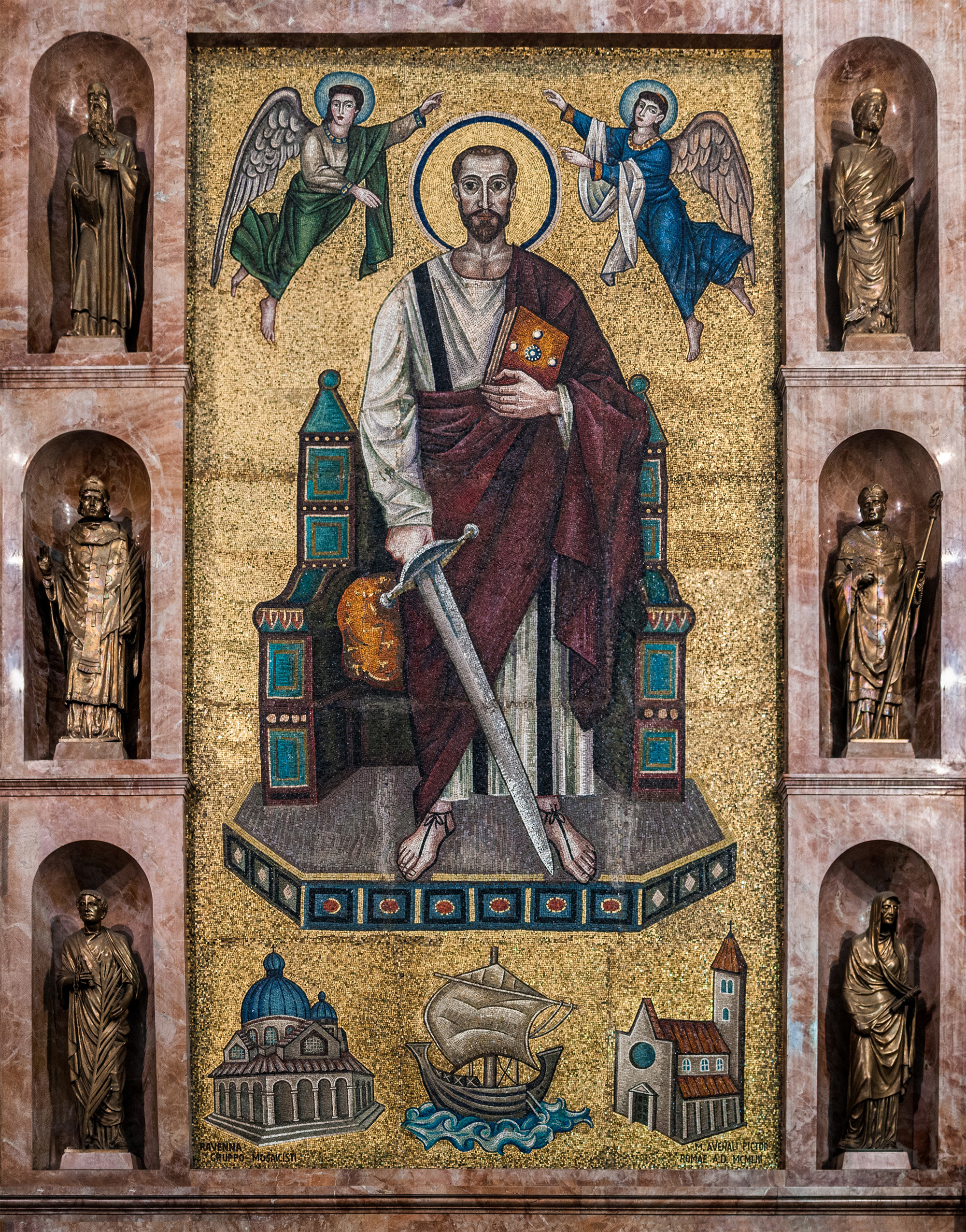 Wall Mural in the Sé Cathedral. The mosaic was designed in 1953 by the Italian painter Avenali, Marcello. - Born in Rome on November 16, 1912 - son of Luigi and Elena Terziani, died in Rome on 11 November 1981, and was ridden by Gruppo Mosaiciste Ravenna (Ravenna Mosaicist Group). Portrays the patron saint of the city of São Paulo (St. Paul) in Brazil, himself the apostle St. Paul holding the sword symbol of the decapitation of his death in his right hand; the book symbol of word that brings us teachings in his left hand; wears a white robe symbol of purity and dedication to the work of God; and red cover the symbol of his martyrdom. Made with gold and precious stones.